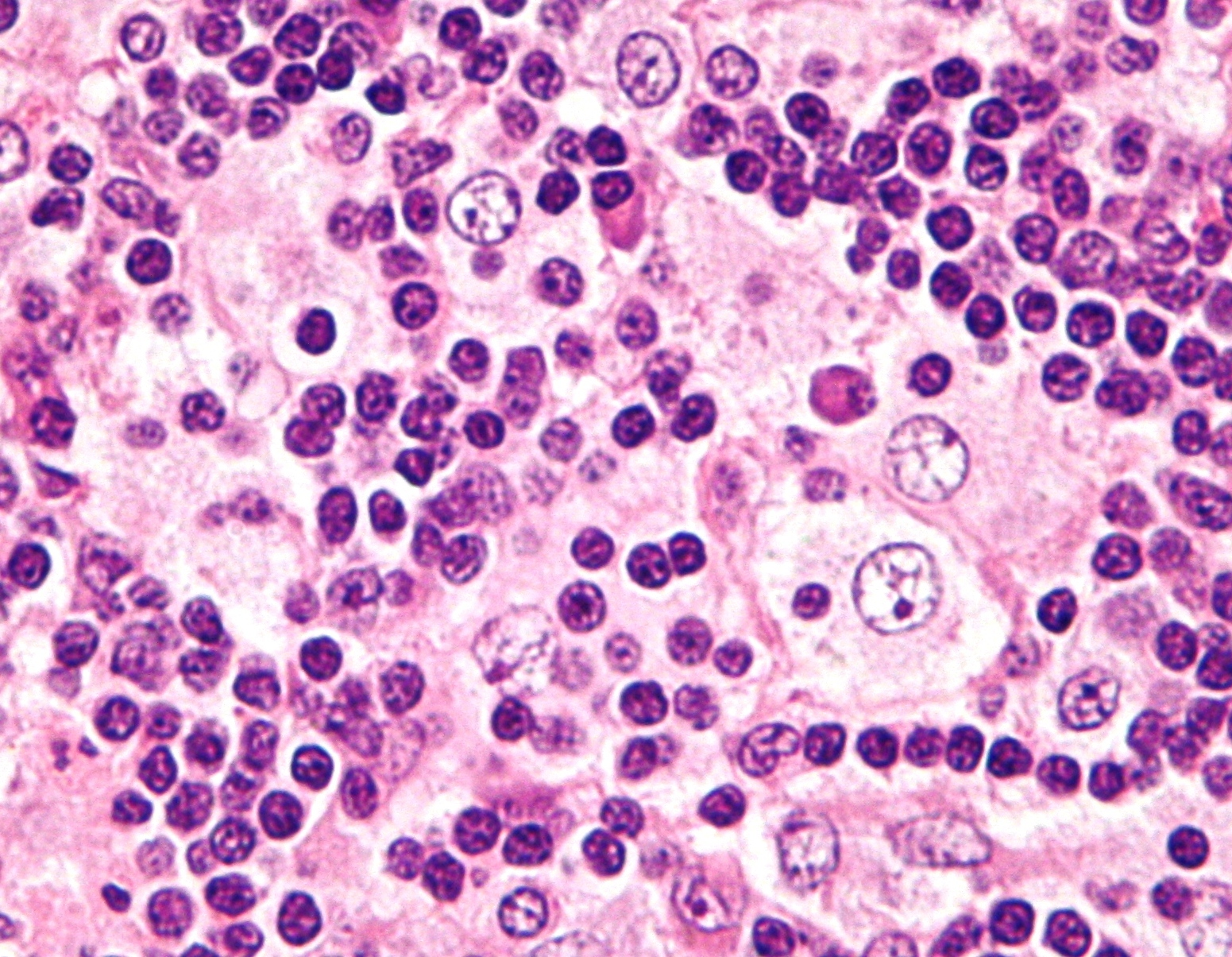 Very high magnification micrograph showing emperipolesis in a lymph node affected by Rosai-Dorfman disease, also known as sinus histiocytosis with massive lymphadenopathy. H&E stain. Emperipolesis is phagocytosis of whole cells. It is not specific for Rosai-Dorfman disease. See also Image:Rosai-Dorfman disease - very high mag.jpg - uncropped version of this image